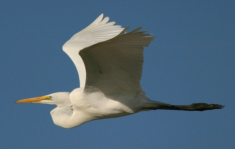 Great Egret - Lovewell State Park (Kansas, USA).